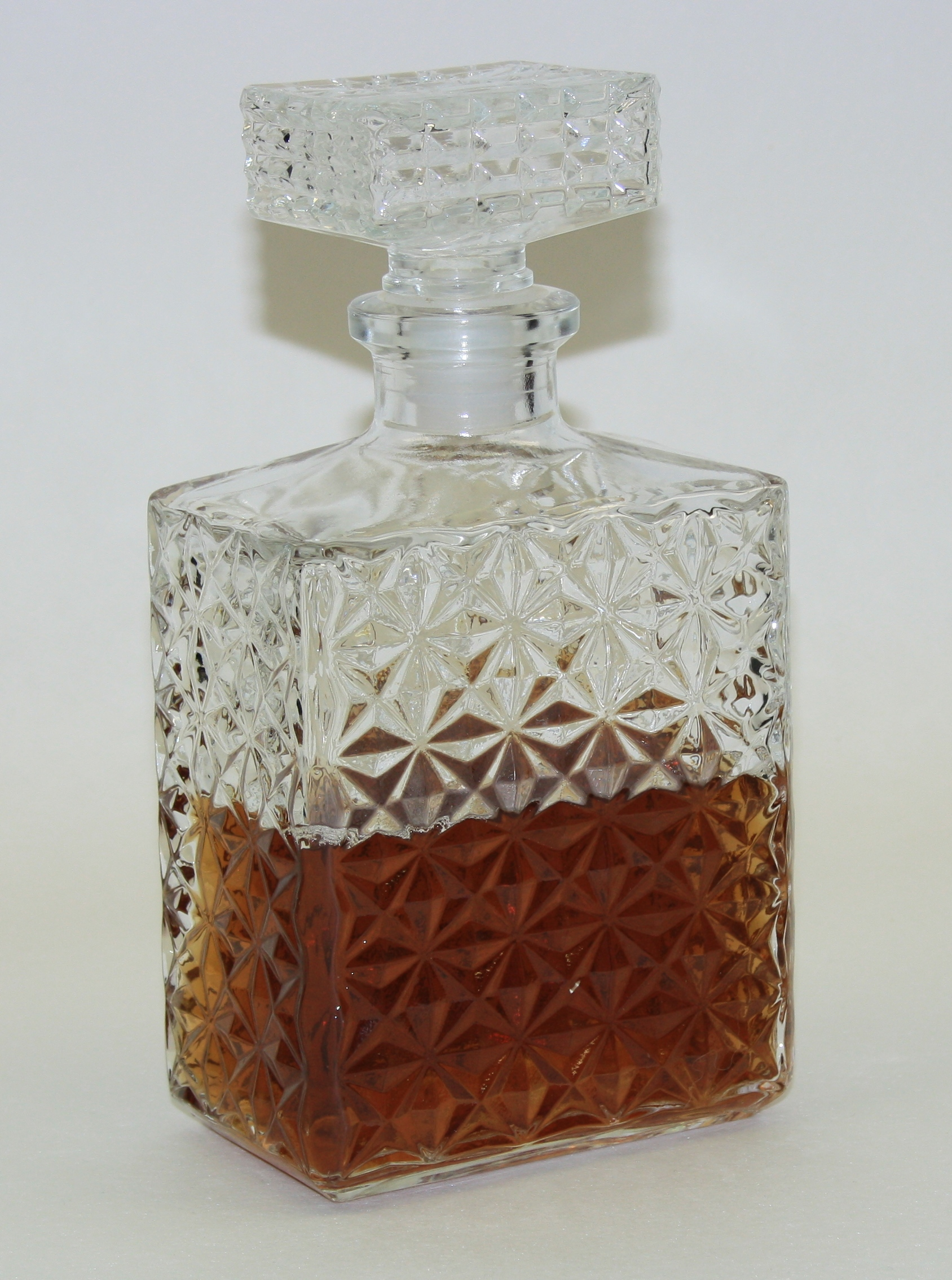 Glass whisky carafe